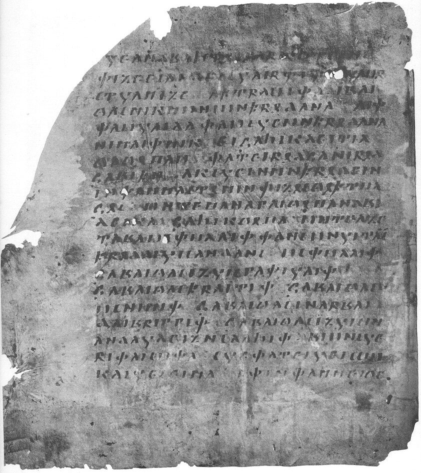 leaf of Codex Ambrosianus B